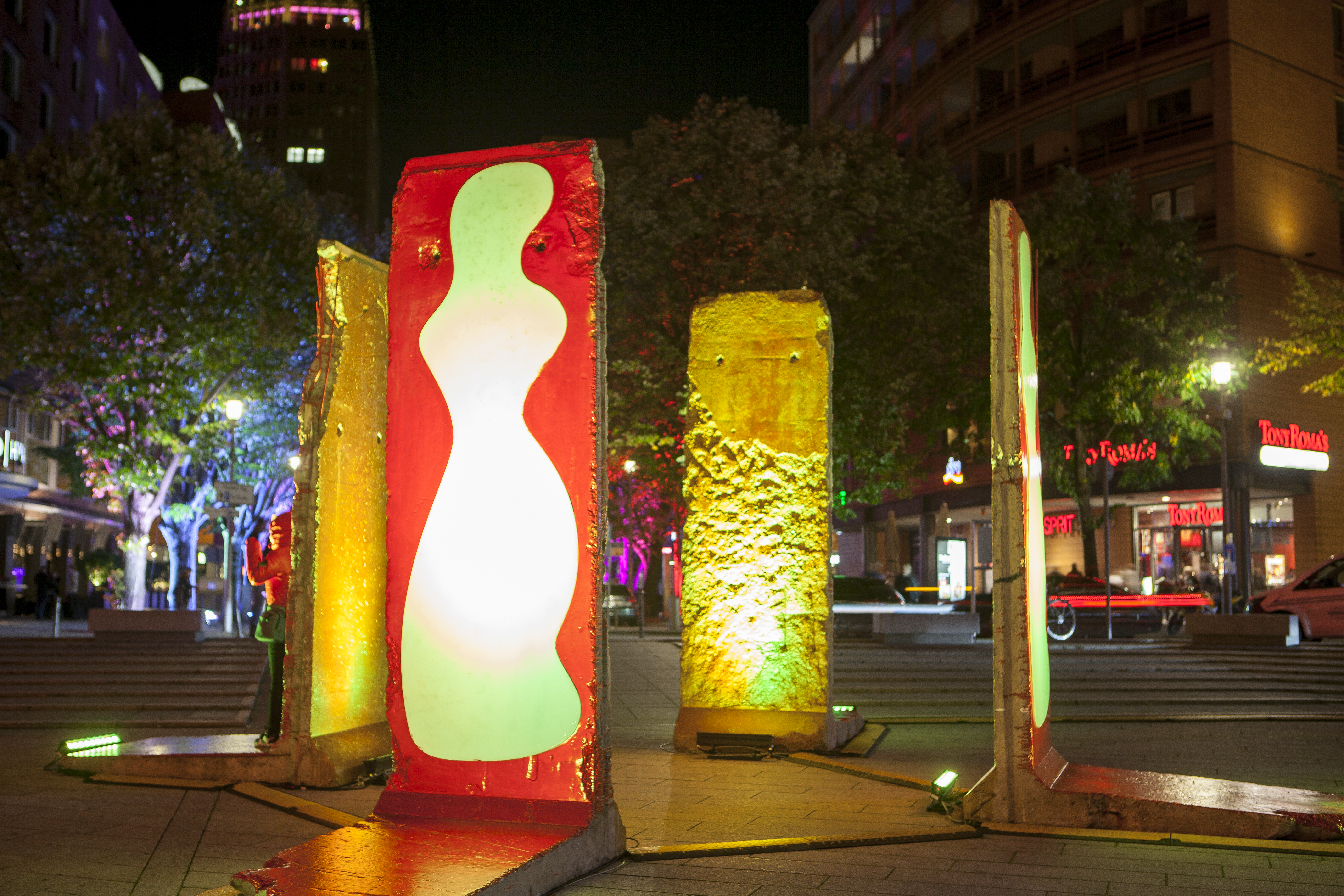 The installation Monoliths by Malte Kebbel consists of original segments of the Berlin Wall, those constitute a non-limited, luminous and reflective place, which instead of its original linear-separating purpose now creates a space of luminous effect for gathering and contemplation. Exhibition: Berlin Leuchtet, 2017 Location: Marlene Dietrich Square / Potsdamer Platz, Berlin, 2017